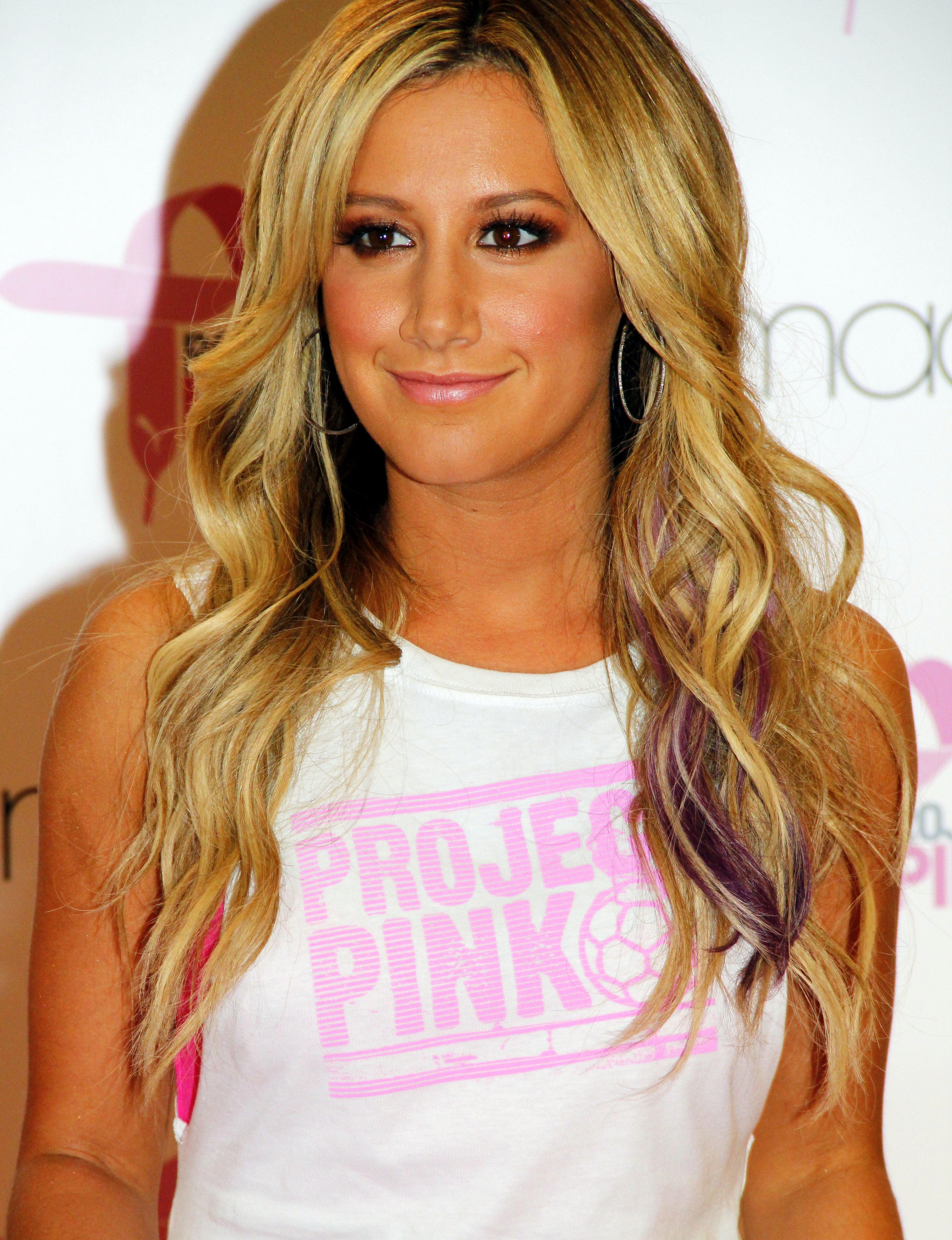 Ashley Tisdale at the Puma Project Pink, Macy*s Herald Square NYC in July 2012.